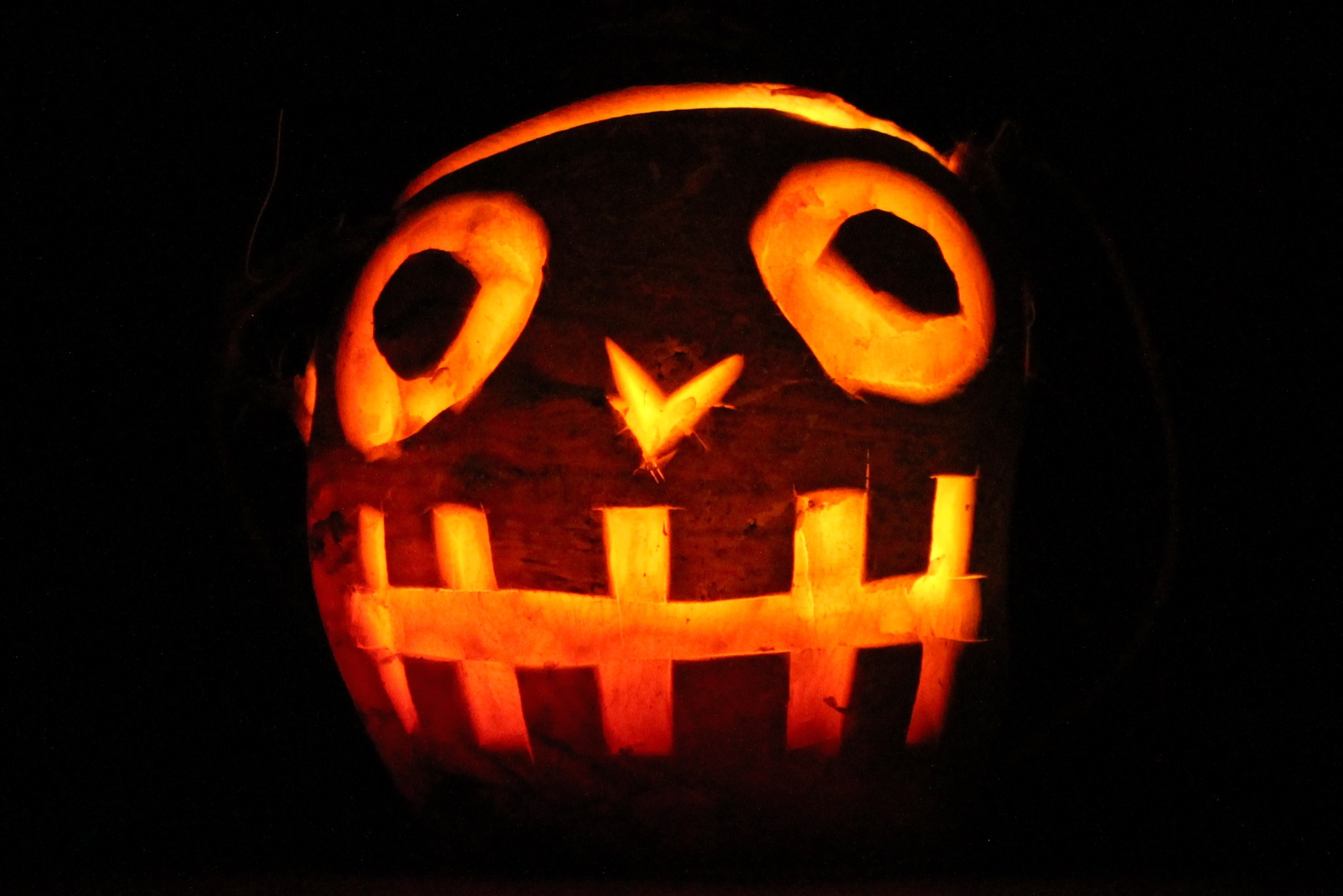 A turnip carved with a face for hop-tu-naa. Gaelg: Napin giarrit son Oie Houney, Mannin.